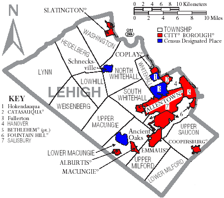 Map of Lehigh County, Pennsylvania, United States with township and municipal boundaries